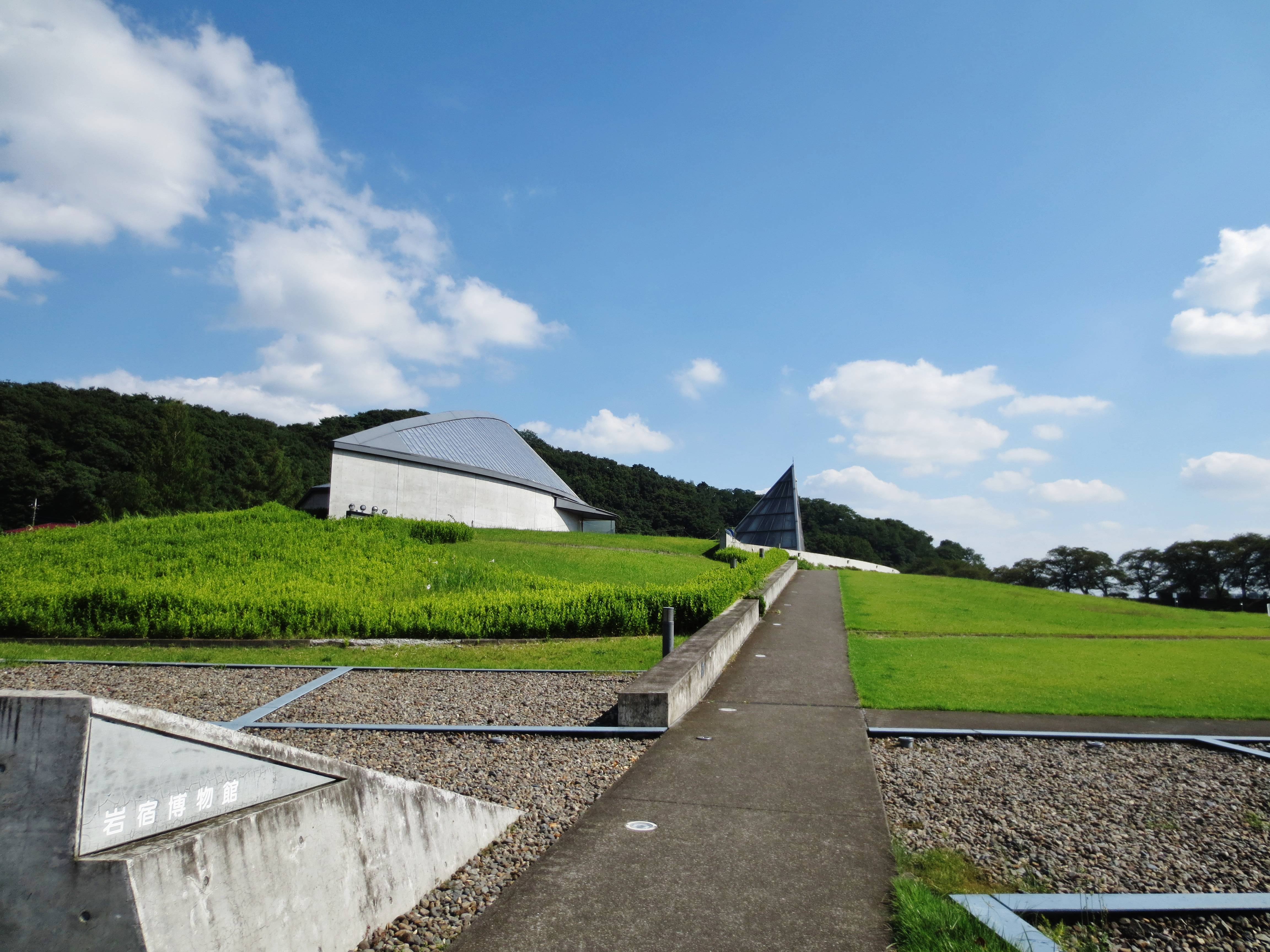 Iwajuku Museum.